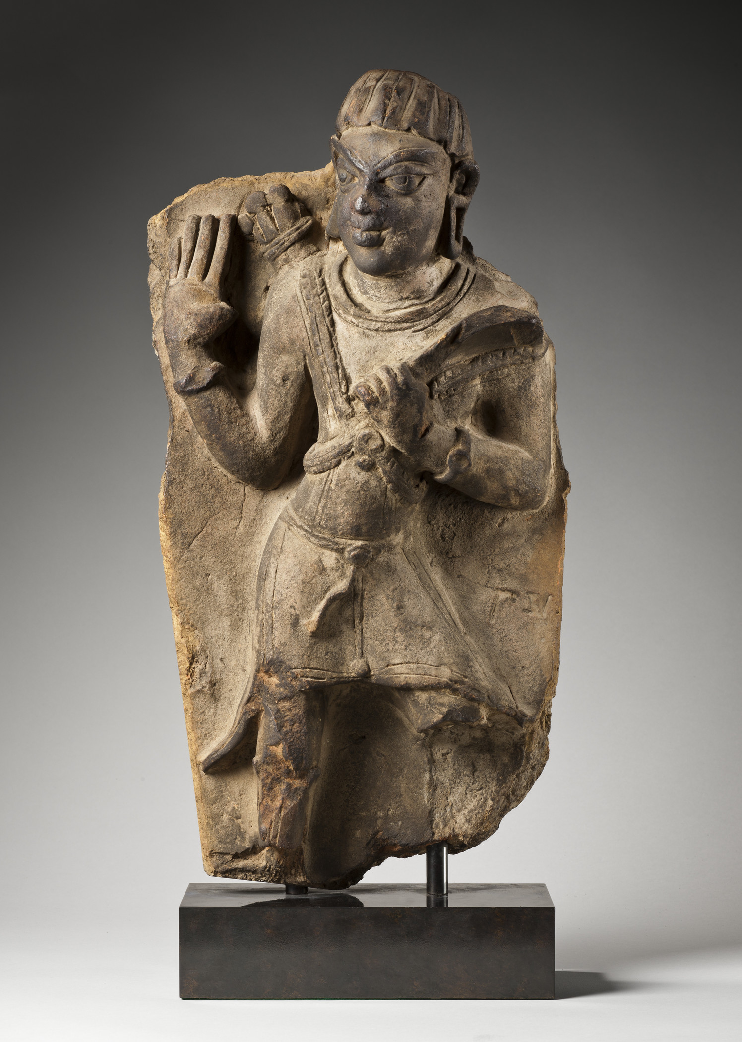 India, Haryana, Nacharkhera (?), 5th century Sculpture Terracotta 18 1/2 x 9 1/2 x 4 3/4 in. (46.99 x 24.13 x 12.07 cm) Gift of Marilyn Walter Grounds (M.83.221.6)